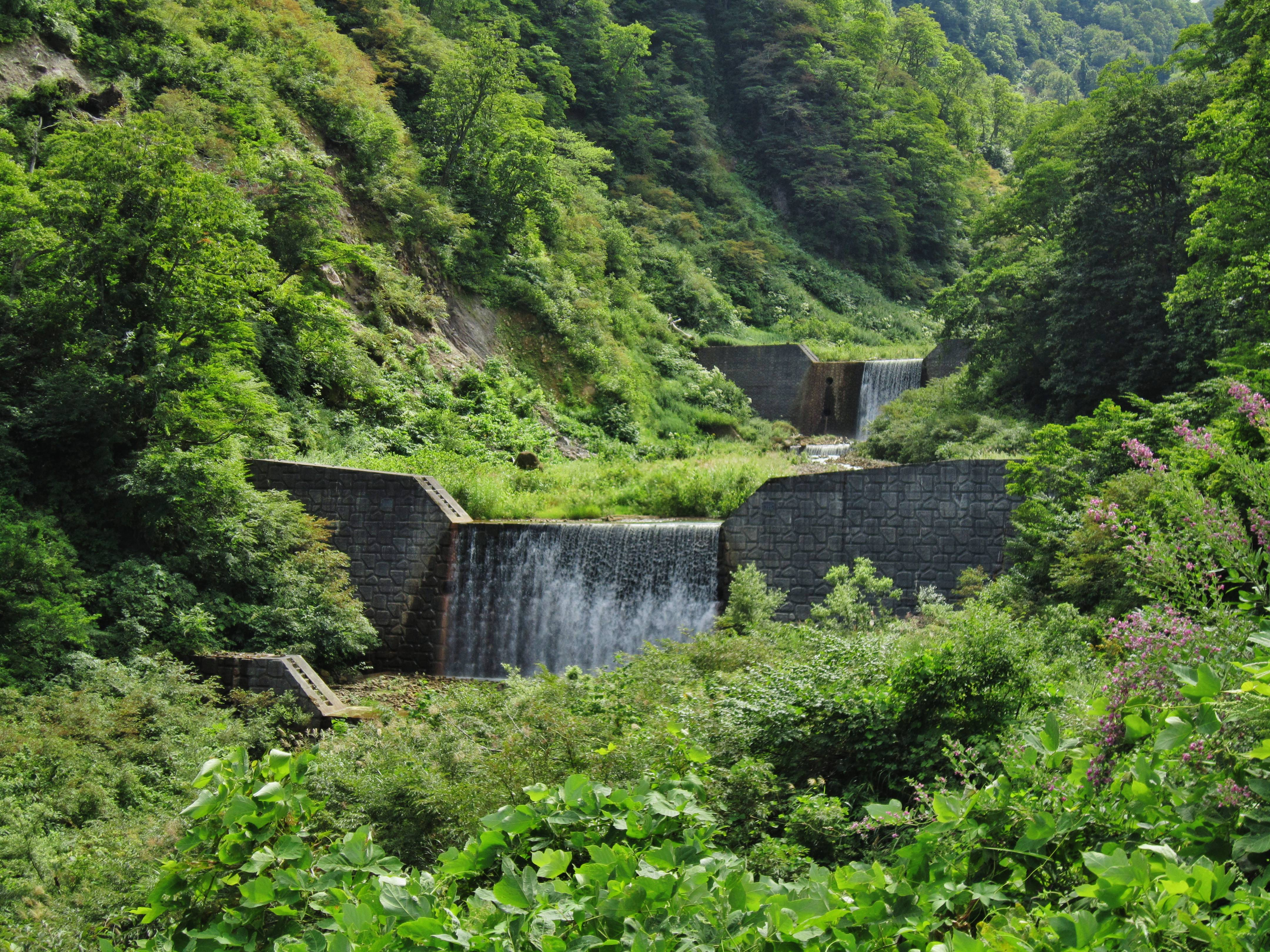 Ōtagiri River check dam.